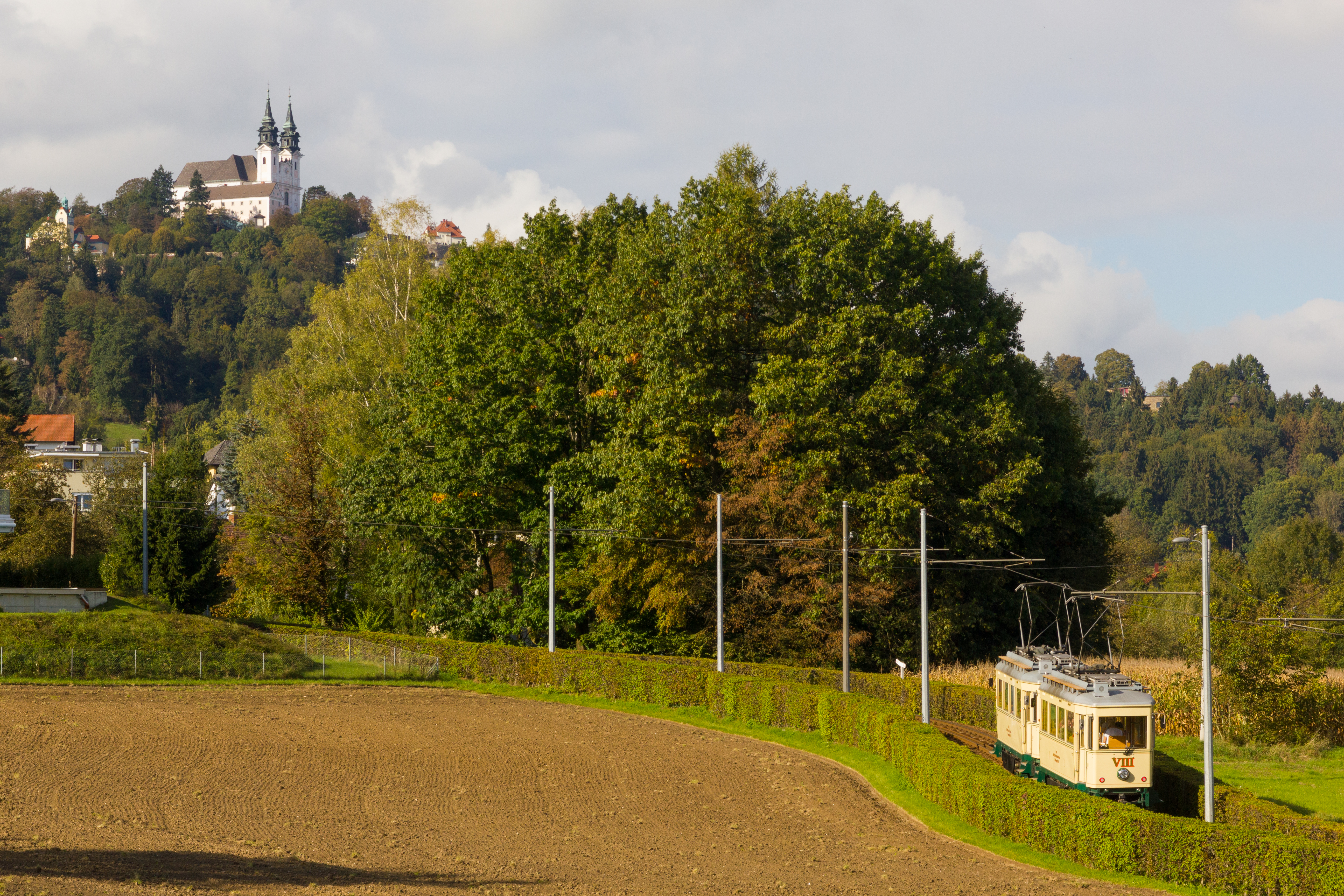 Vintage trams of Pöstlingbergbahn near Tiergarten